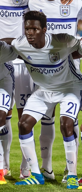 Fabrice N'Sakala